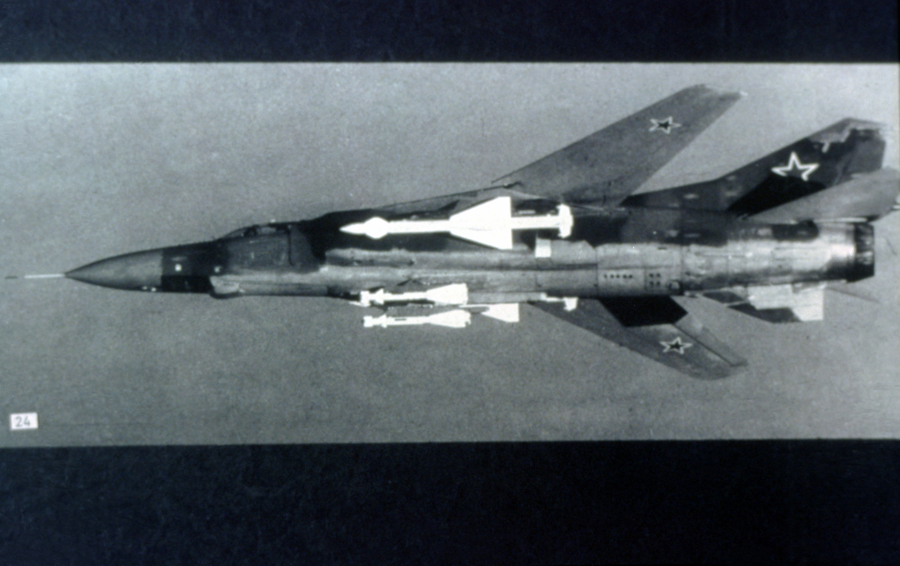 An air-to-air left side view of a Soviet MIG-23 Flogger B aircraft. (Photo courtesy of Soviet Military Power).